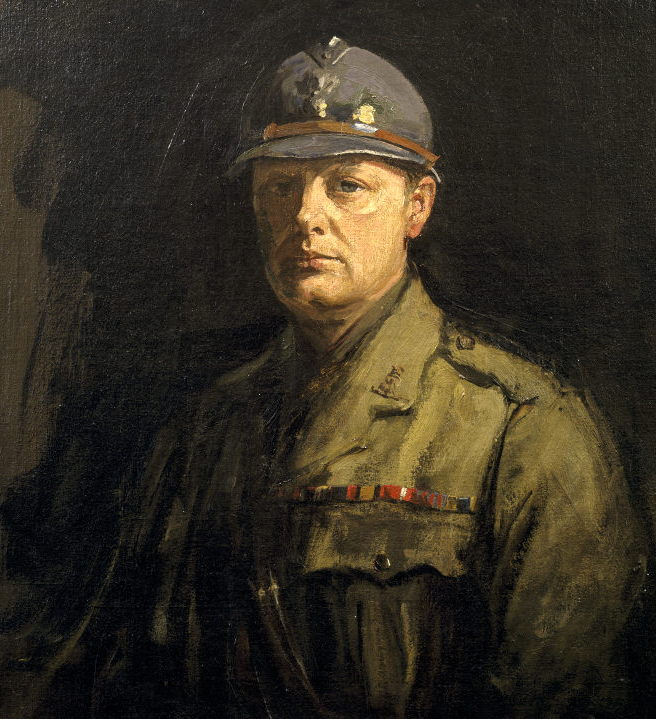 Winston Churchill wearing an Adrian helmet